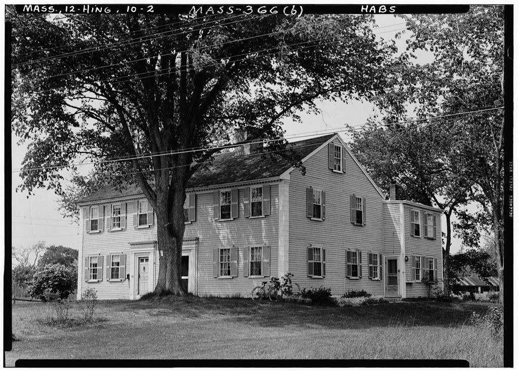 Photographic view of the exterior of the Thomas Loring House, Hingham, Plymouth County, Massachusetts, looking northwest. Historic American Buildings Survey, Library of Congress, Washington, D. C.